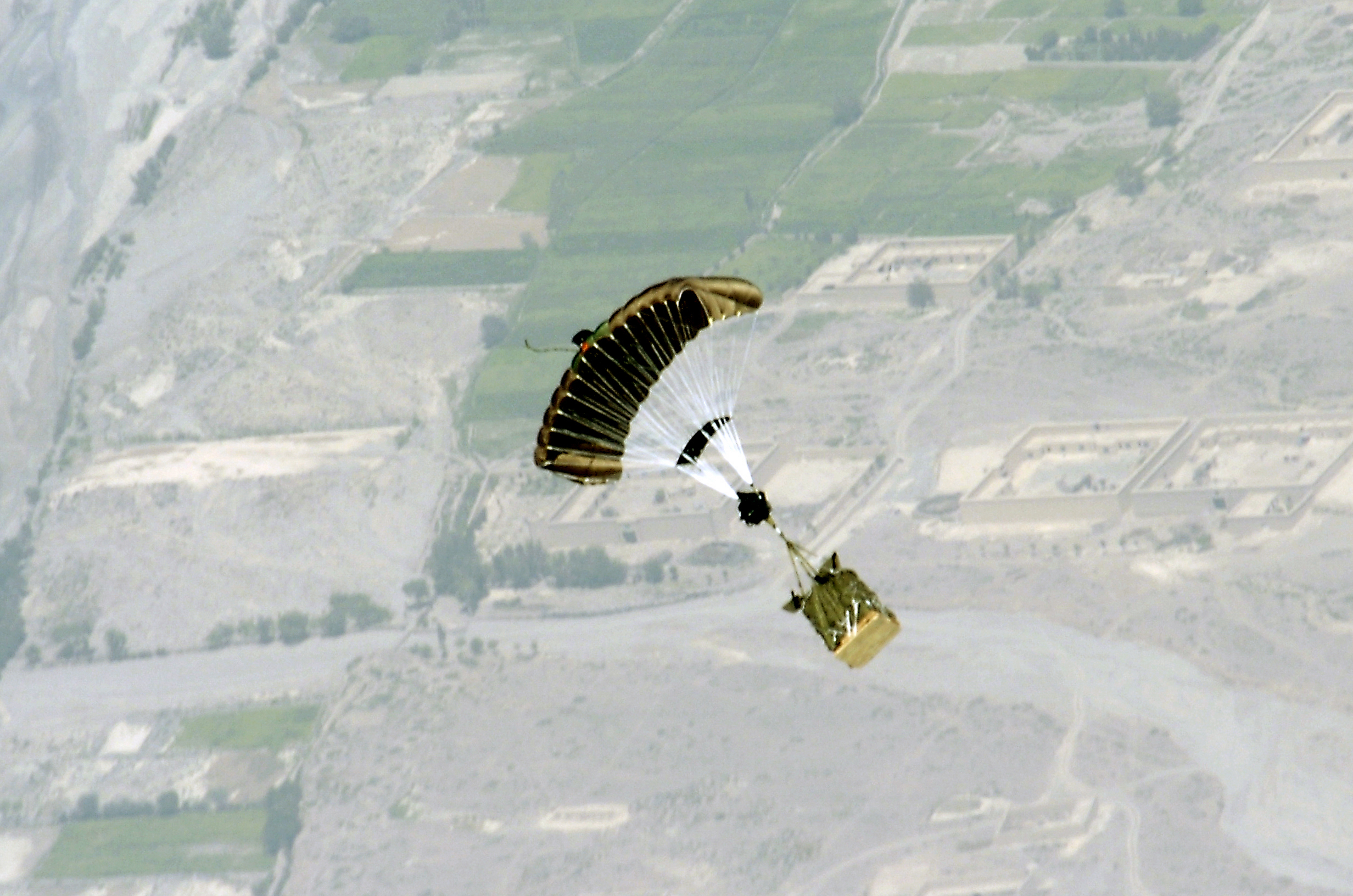 new Joint Precision Airdrop System bundle floats to the ground after being dropped from the back of a C-130 Hercules aircraft over Afghanistan, Aug. 31. The drop, made from 17,500 feet, was the first joint Air Force-Army operational drop of JPADS in the U.S. Central Command area of responsibility to re-supply ground troops with ammunition and water.